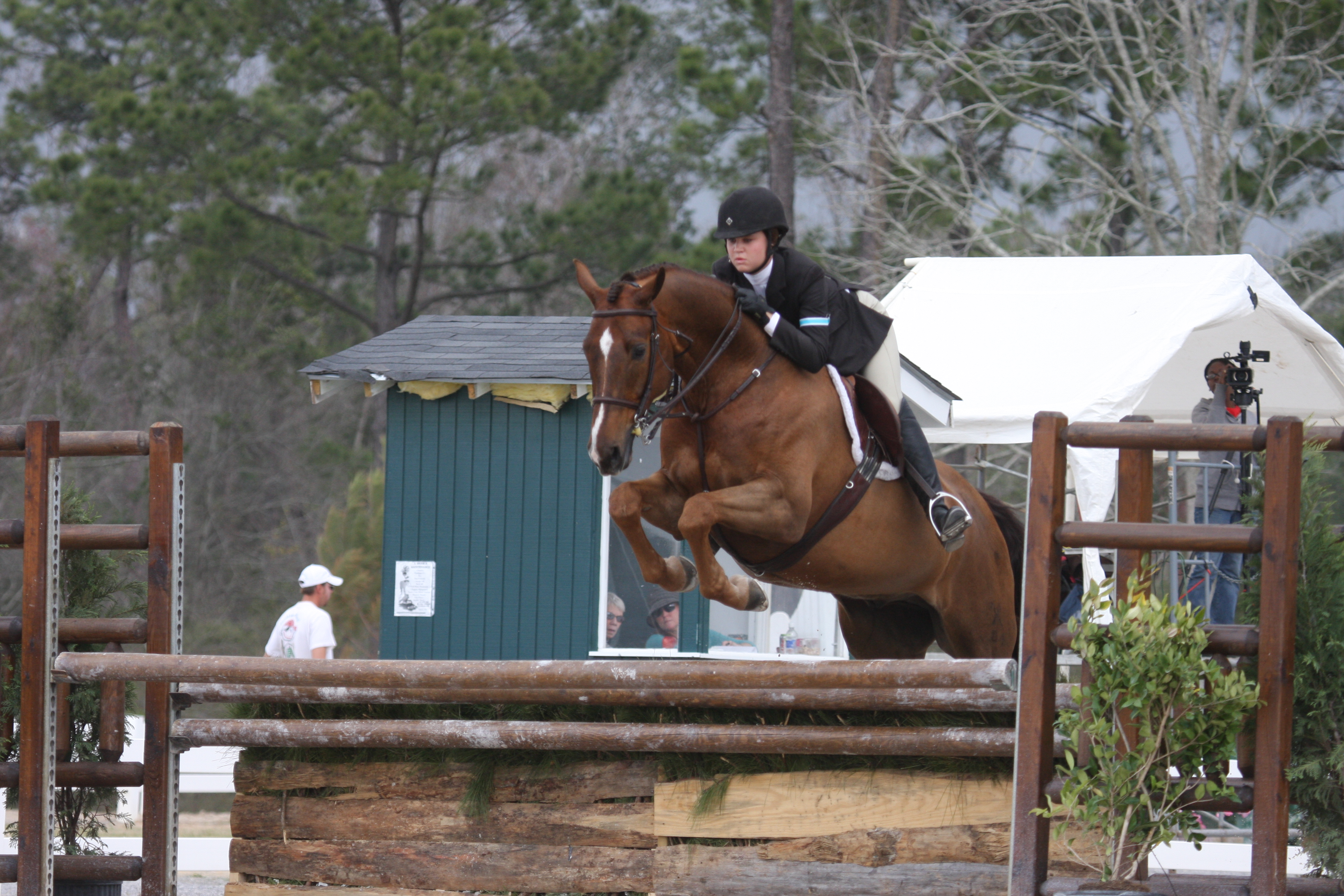 Liver chestnut Hanoverian show hunter.